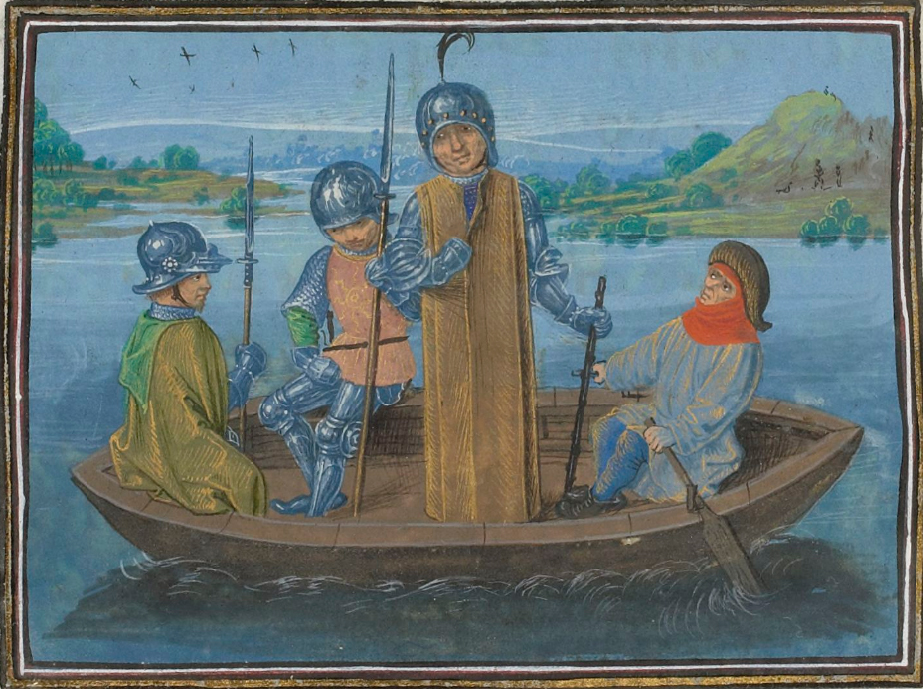 Richard II's court favourite Robert de Vere fleeing Radcot Bridge after the 1387 battle; taken from the Gruthuse manuscript of Froissart's Chroniques (ca. 1475).